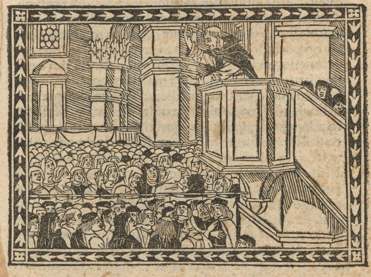 Cropped version of a page from Compendio di revelatione / dello invtile servo di Iesv Christo frate Hieronymo da Ferrara dellordine de Frati Predicatori (Florence, 1496) by Girolamo Savonarola (1452-1498). Inc 6316.10 (A), Houghton Library, Harvard University